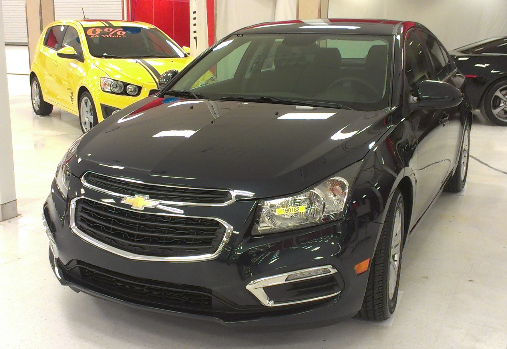 2015 Chevrolet Cruze photographed in Montreal, Quebec, Canada at the Carrefour Angrignon auto show that was located where Target was.